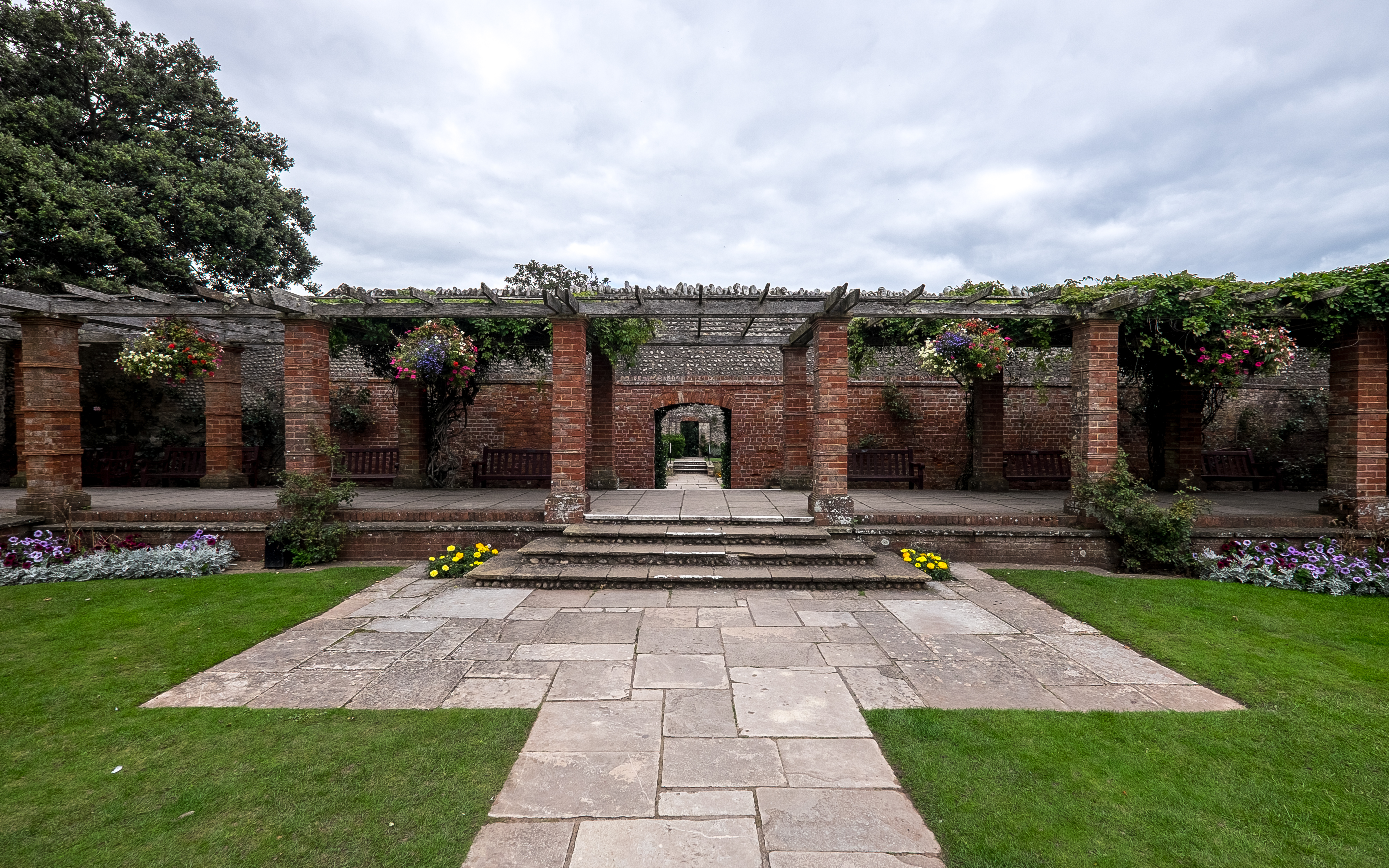 Cannaught Gardens in Sidmouth in September